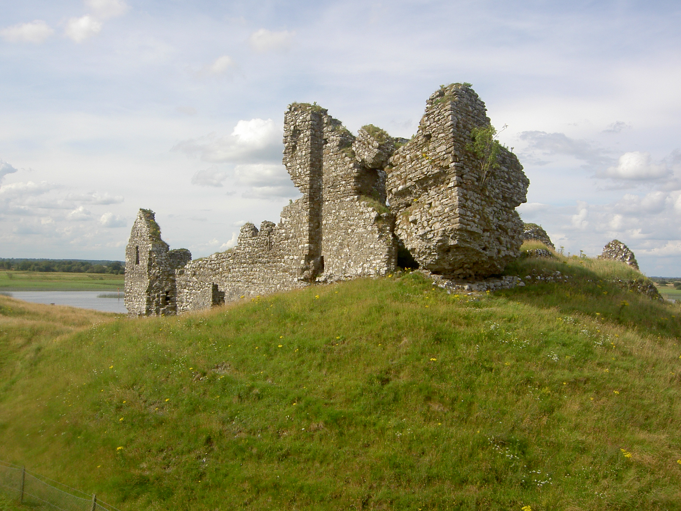 The ruins of the castle in Clonmacnoise, Ireland